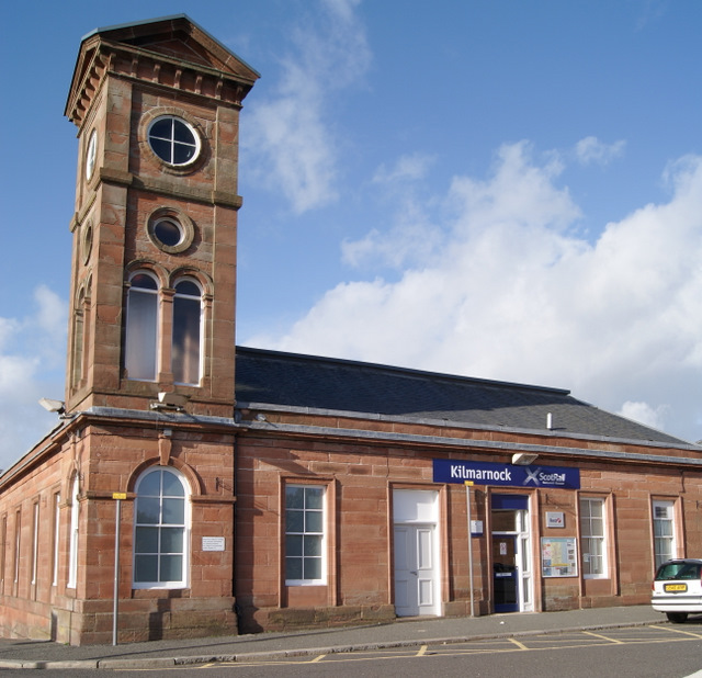 Kilmarnock